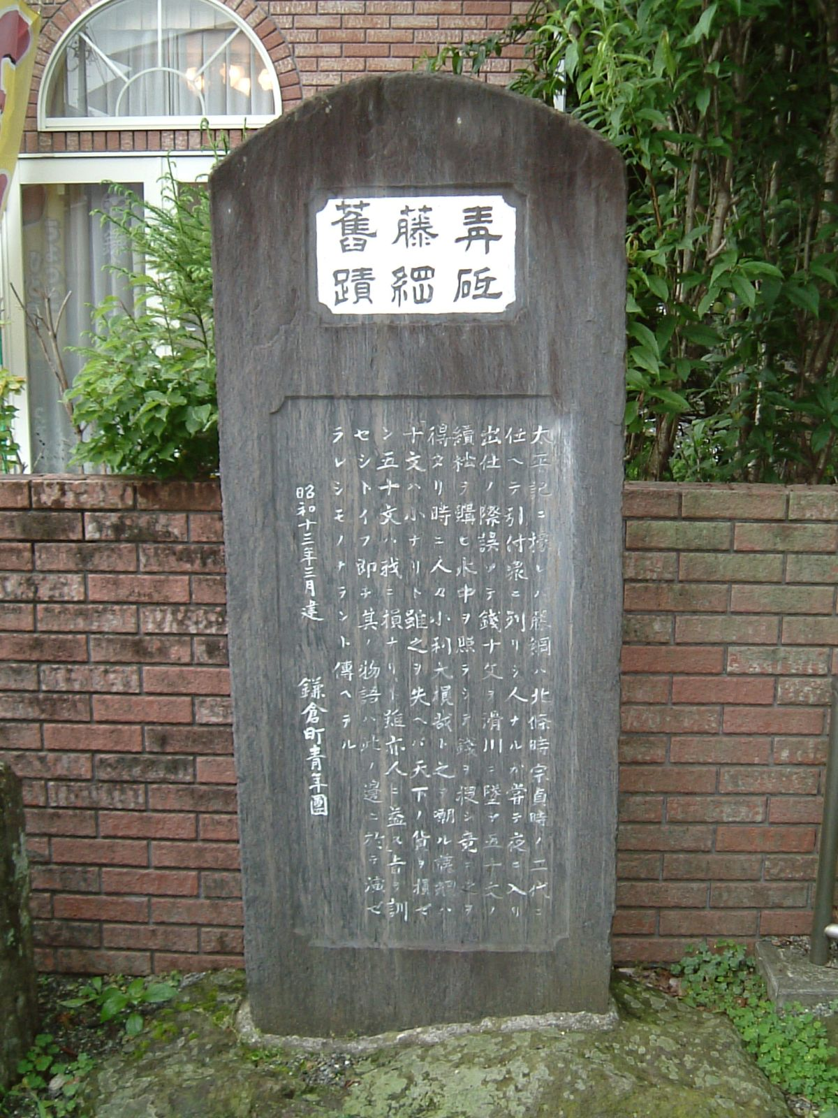 Stele of Aoto Fujitsuna's historic site (coins story) in Kamakura, Kanagawa